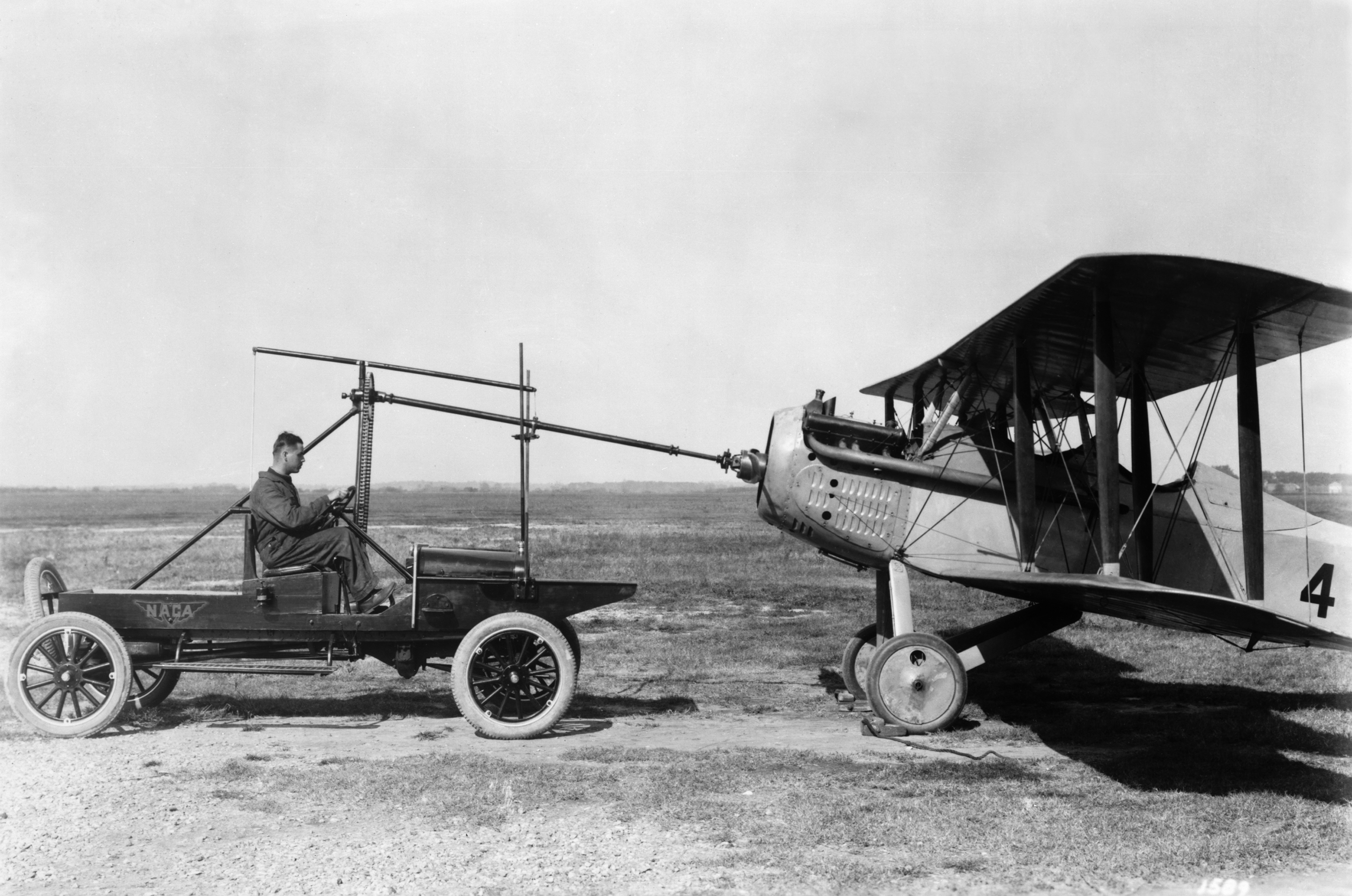 Modified Model T Ford with Huck starter, shown starting a Vought VE-7.